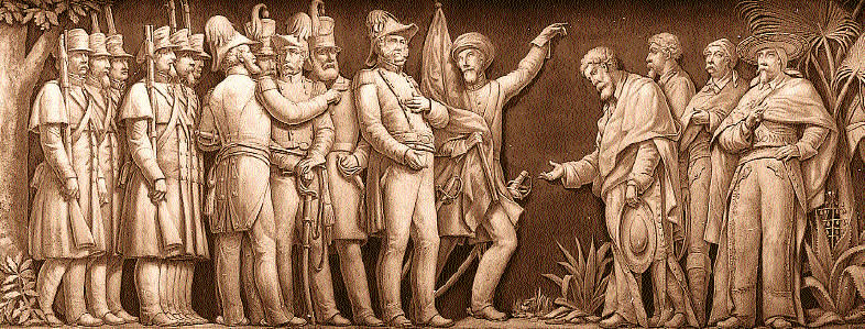 "American Army Entering the City of Mexico" - General Winfield Scott is shown during the Mexican War, entering the capital. Peace came in 1848 with the Treaty of Guadalupe Hidalgo, which fixed the Mexican-American border at the Rio Grande River and recognized the accession of Texas. The treaty also extended the boundaries of the United States to the Pacific.